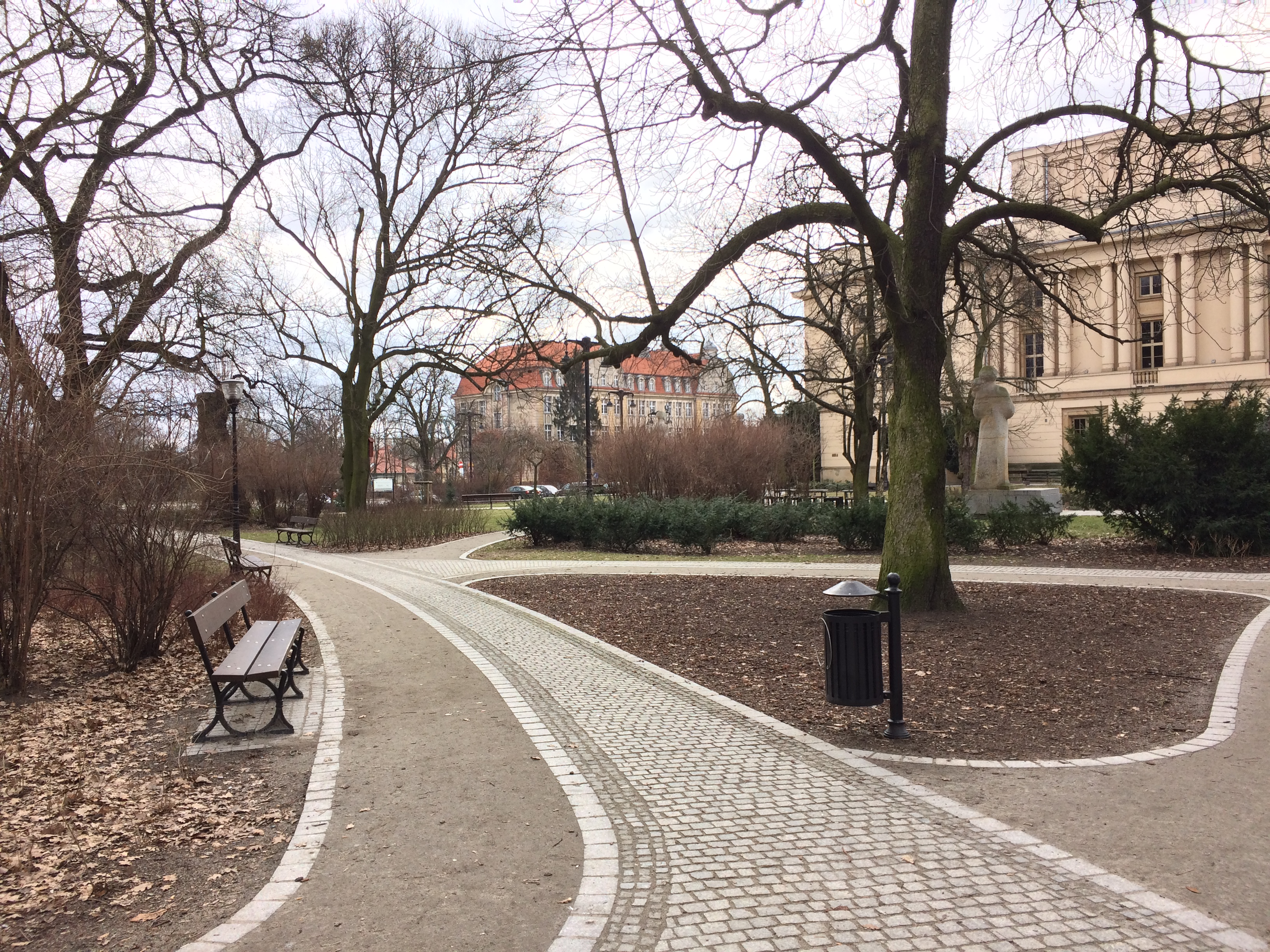 Park Kochanowskiego philarmonia